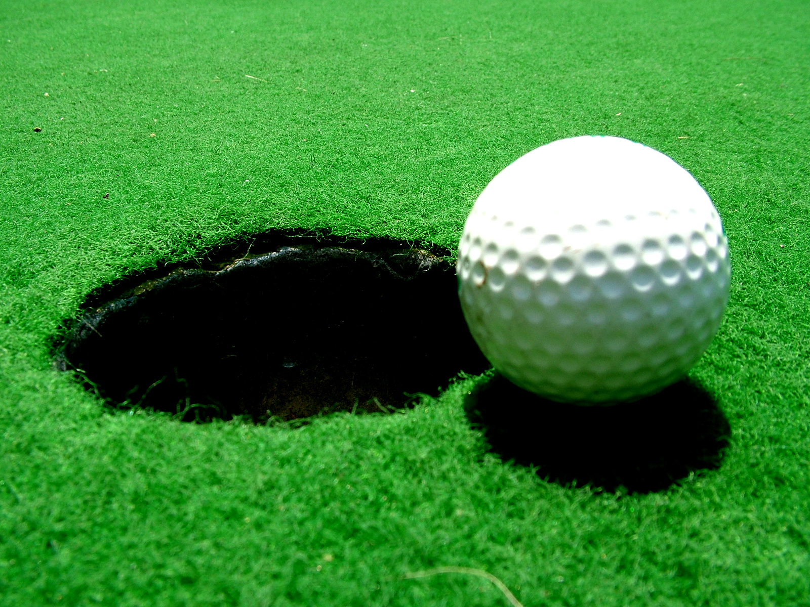 A golf ball directly before the hole